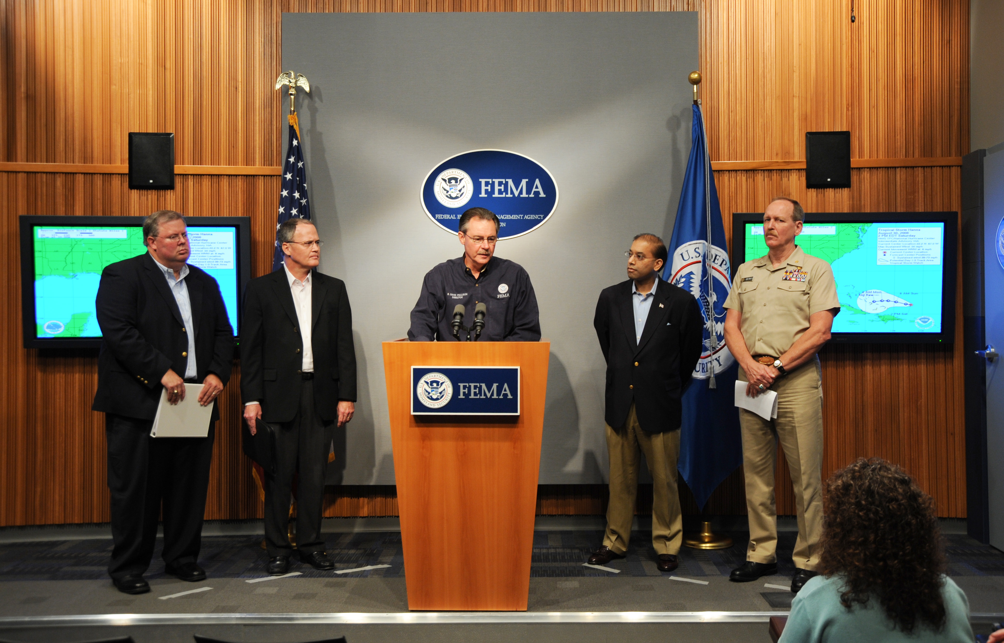 Washington, DC, August 30, 2008 -- FEMA Administrator David Paulison at a FEMA headquarters press conference where he introduced Federal and volunteer partners. Hurricane Gustav was likely to grow and threatens all Gulf Coast residents. He urged residents to pay attention to the storm which is likely to hit Louisiana. With Mr. Paulison are: Brian Montgomery, Assistant Secretary & Federal Housing Commissioner, U.S. Housing and Urban Development, Joe Becker, Senior Vice President of Disaster Services, American Red Cross, (Mr. Paulison at podium) Sandy K. Baruah, Acting Administrator, U.S. Small Business Administration, Rear Admiral W. Craig Vanderwagen, Assistant Secretary for Preparedness and Response, U.S. Department of Health and Human Services.